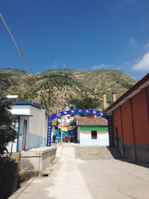 View from Dingxi Teacher's College, looking towards the mountain.